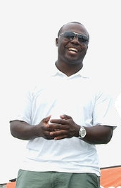 Cropped photo of Marshall Faulk